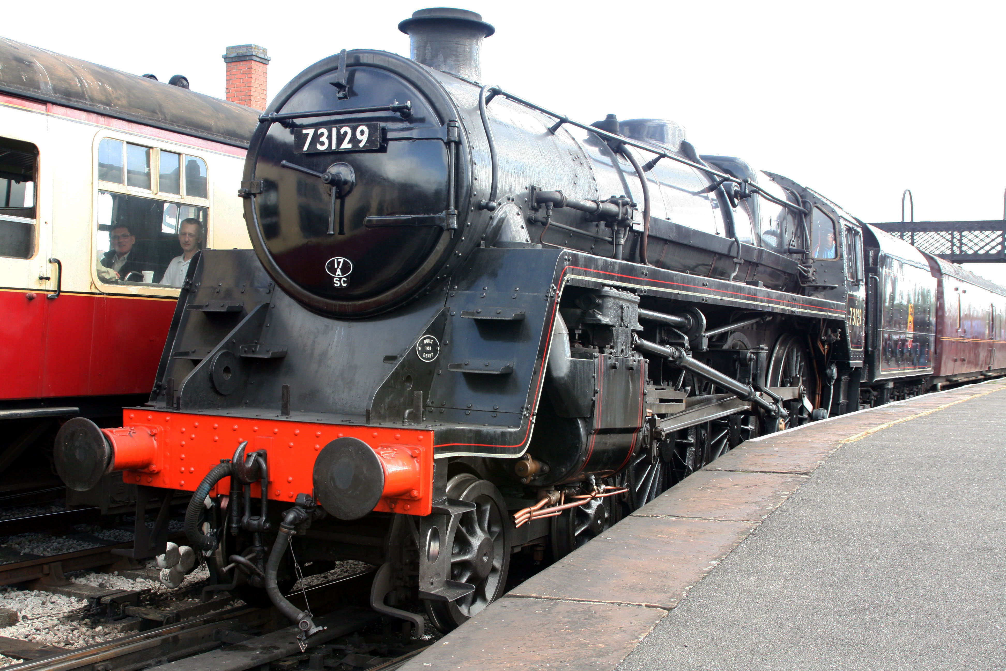 73129 at Railex 2013 Swanwick Junction towards Butterley